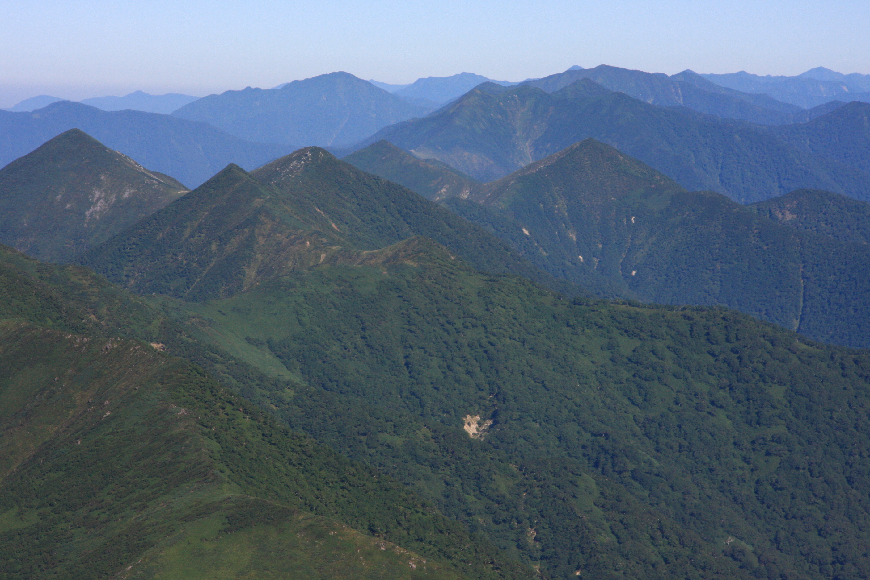 Main ridge of the Hidaka Mountains in Hokkaido, Japan, seen from Mount Rakko